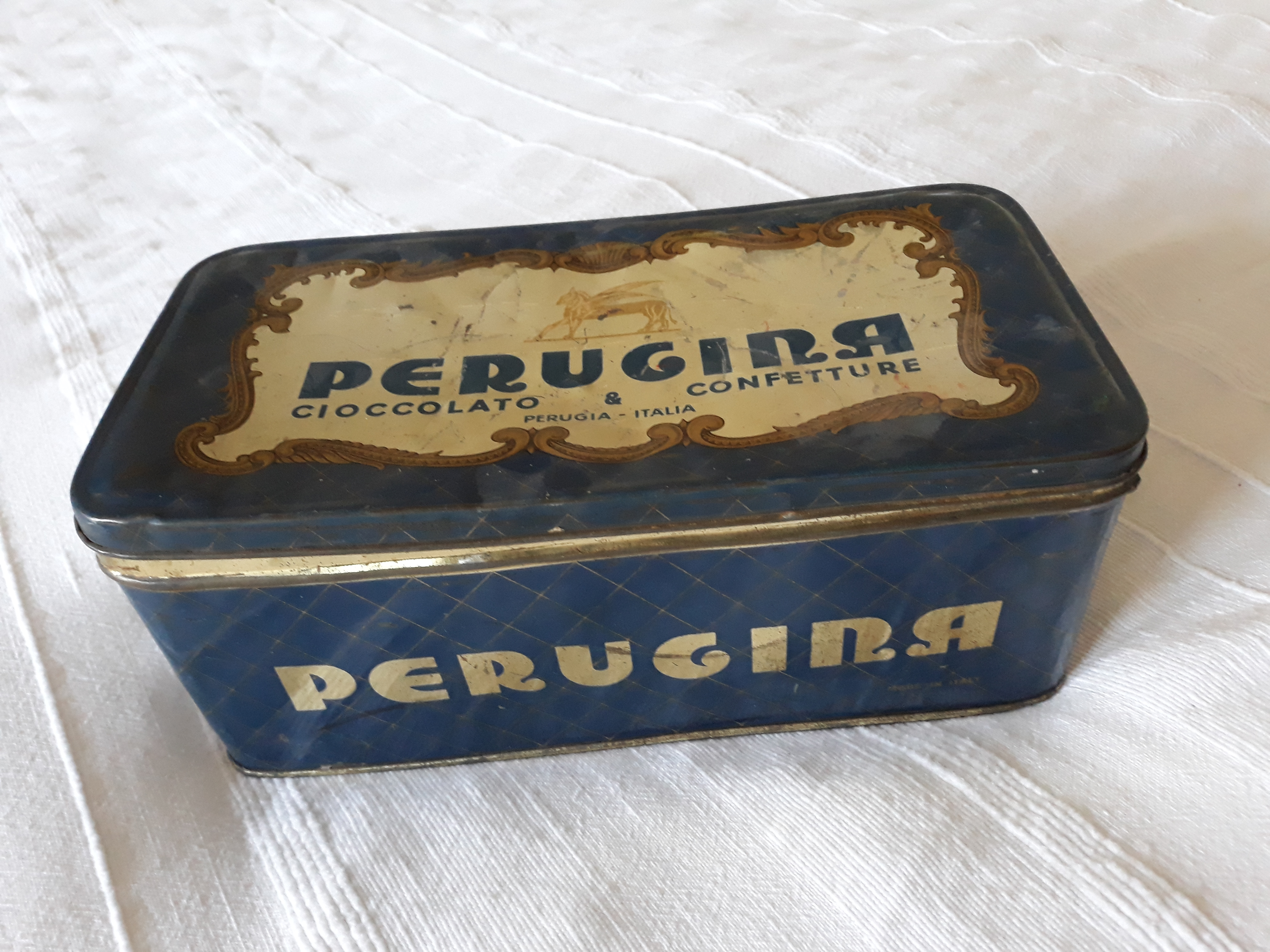 Perugina chocolate tin box. Circa 1955. 28x15x11cm